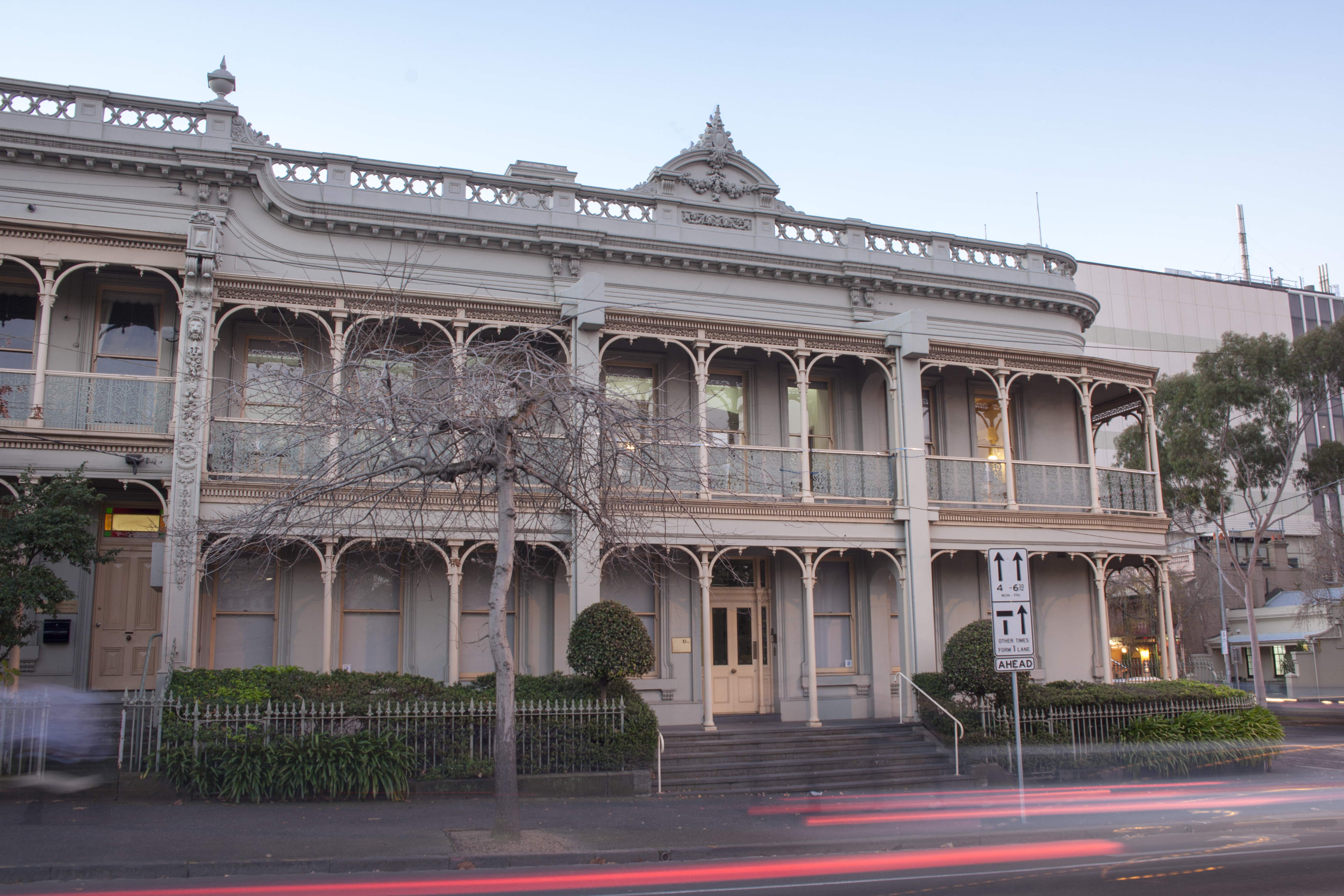 Mollison House in East Melbourne, Victoria, Australia. The current site of the Bionics Institute.